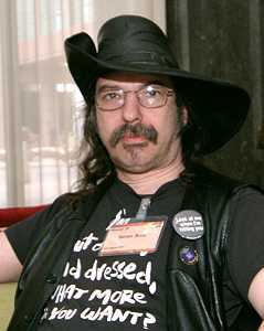 Steven Brust